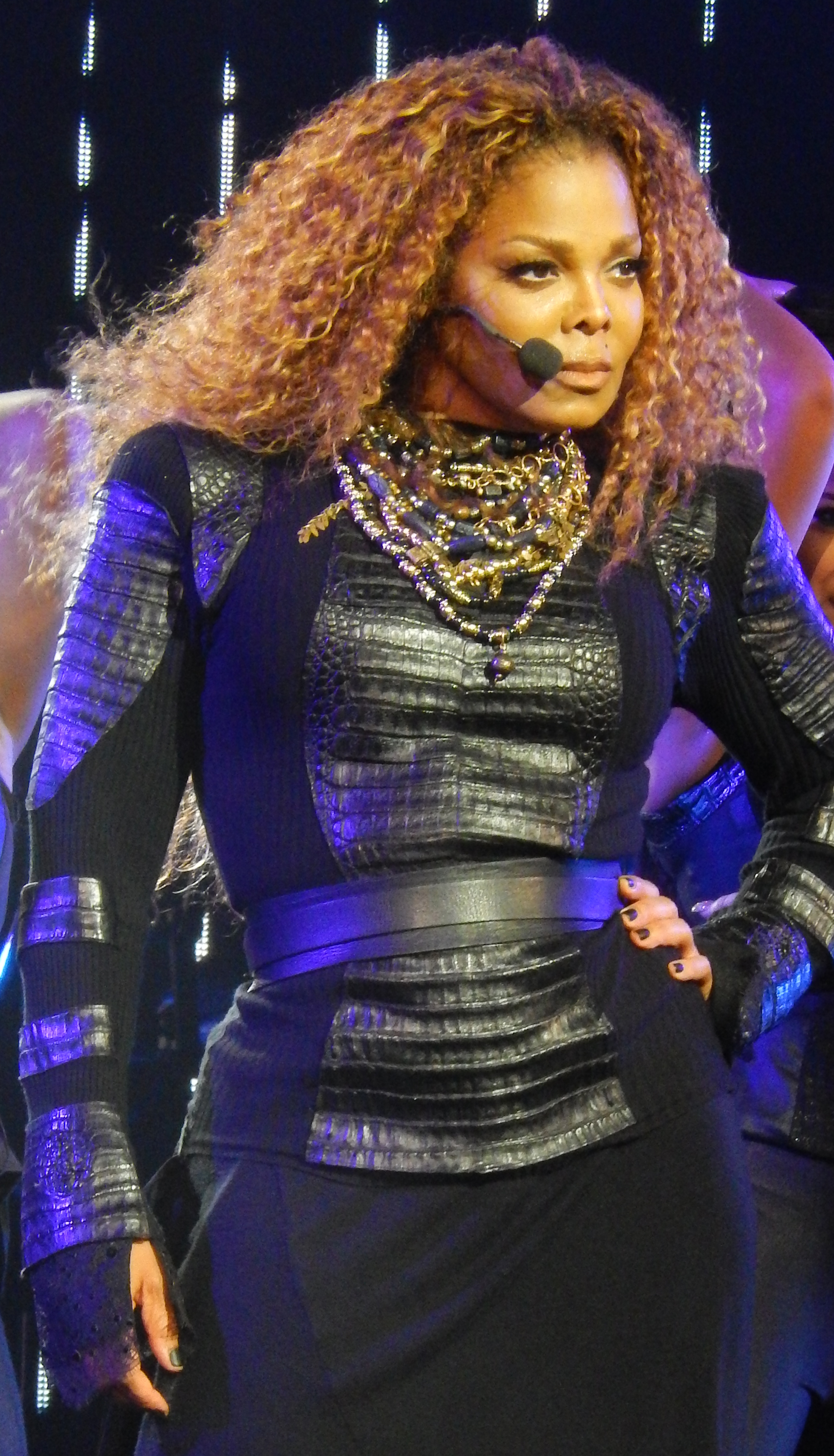 Janet Jackson on her Unbreakable World Tour, Bill Graham Civic Auditorium, San Francisco, California, October 14, 2015